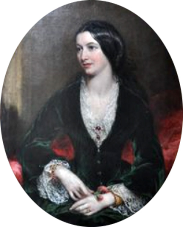 Margaret Anne Mellish, owner of Hodsock Priory